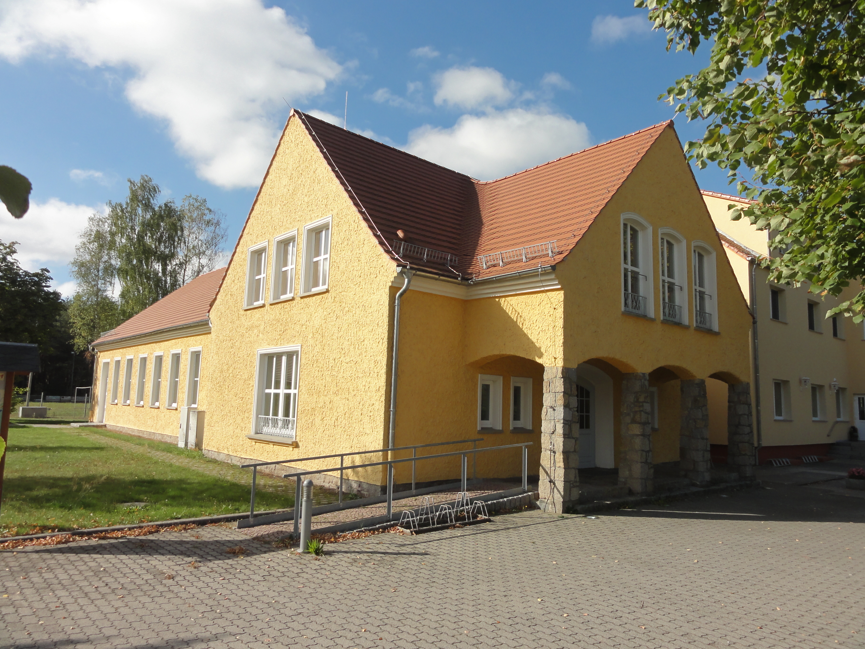 cultural and community centre in Kringelsdorf; cultural heritage No. 09277210